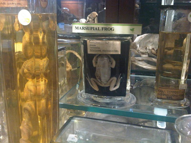 Gastrotheca griswoldi in Grant Museum of Zoology, London, England.